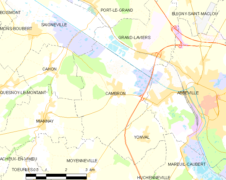 Map of French municipality Cambron